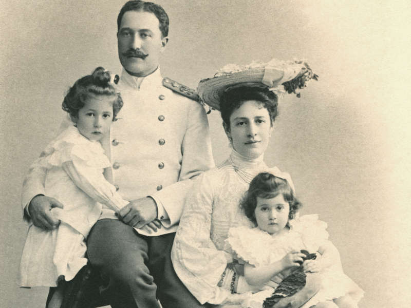 19th century Georgian nobility, descendants of General Alexander Chavchavadze.